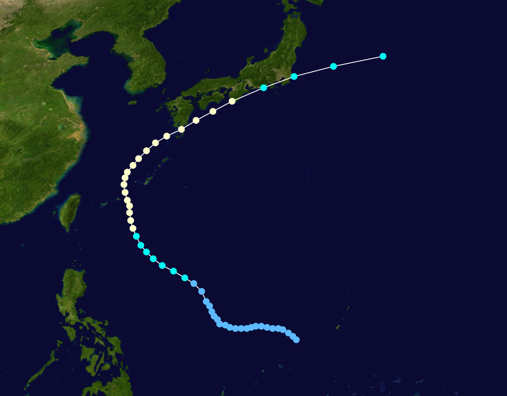 Typhoon Gene 1990 track. Uses the color scheme from the Saffir-Simpson Hurricane Scale.